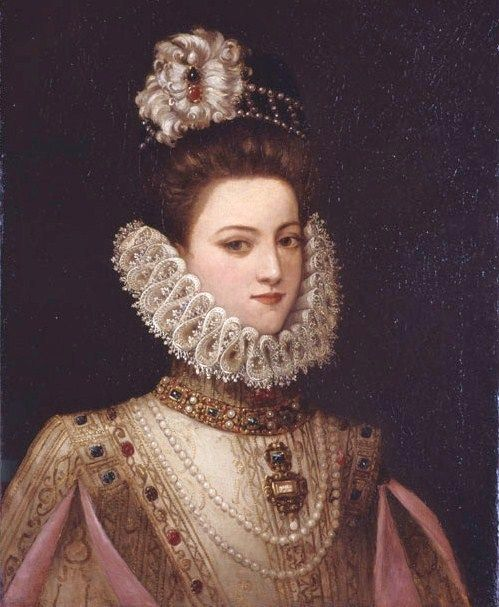 Infanta Isabella Clara Eugenia of Spain and Portugal, Sovereign of the Netherlands